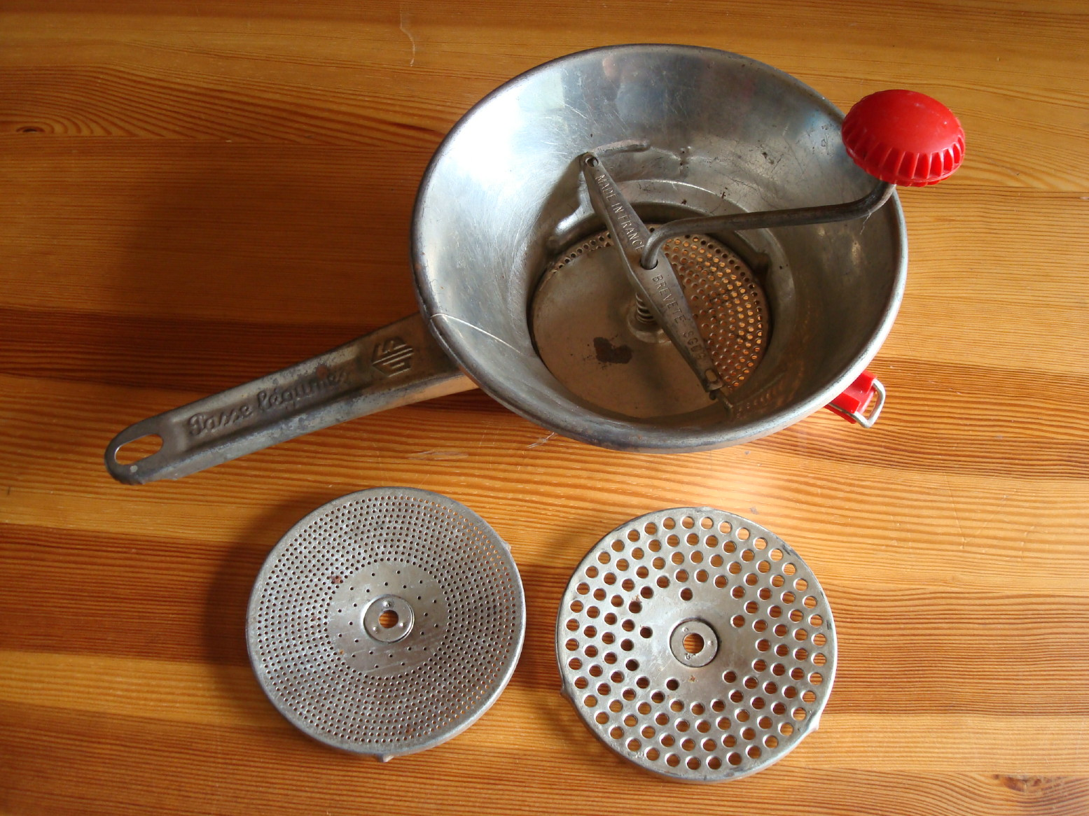 Food mill with interchangeable plates with different hole sizes (Made in France, Brevete SGDG)